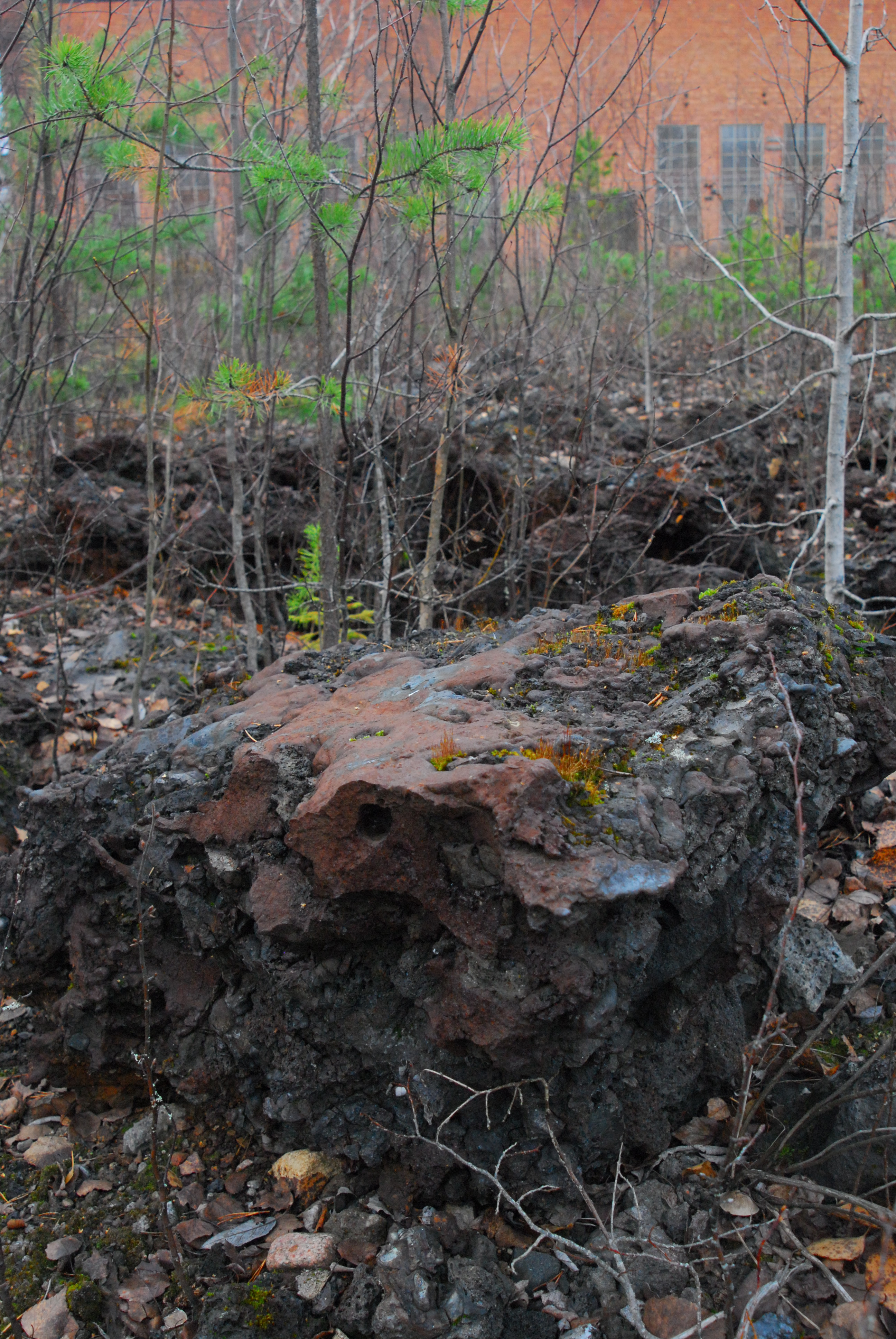 Former ironworks of Horndal, Avesta Municipality, Sweden